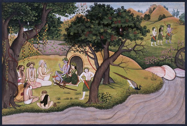 The ascetics ask Rama for protection. Folio from the small-Guler Ramayana series from 1775/80. Workshop of a master of the first generation after Nainsukh. India, Pahari region, Himachal Pradesh. Private collection, Switzerland; Photo: Rainer Wolf Berger